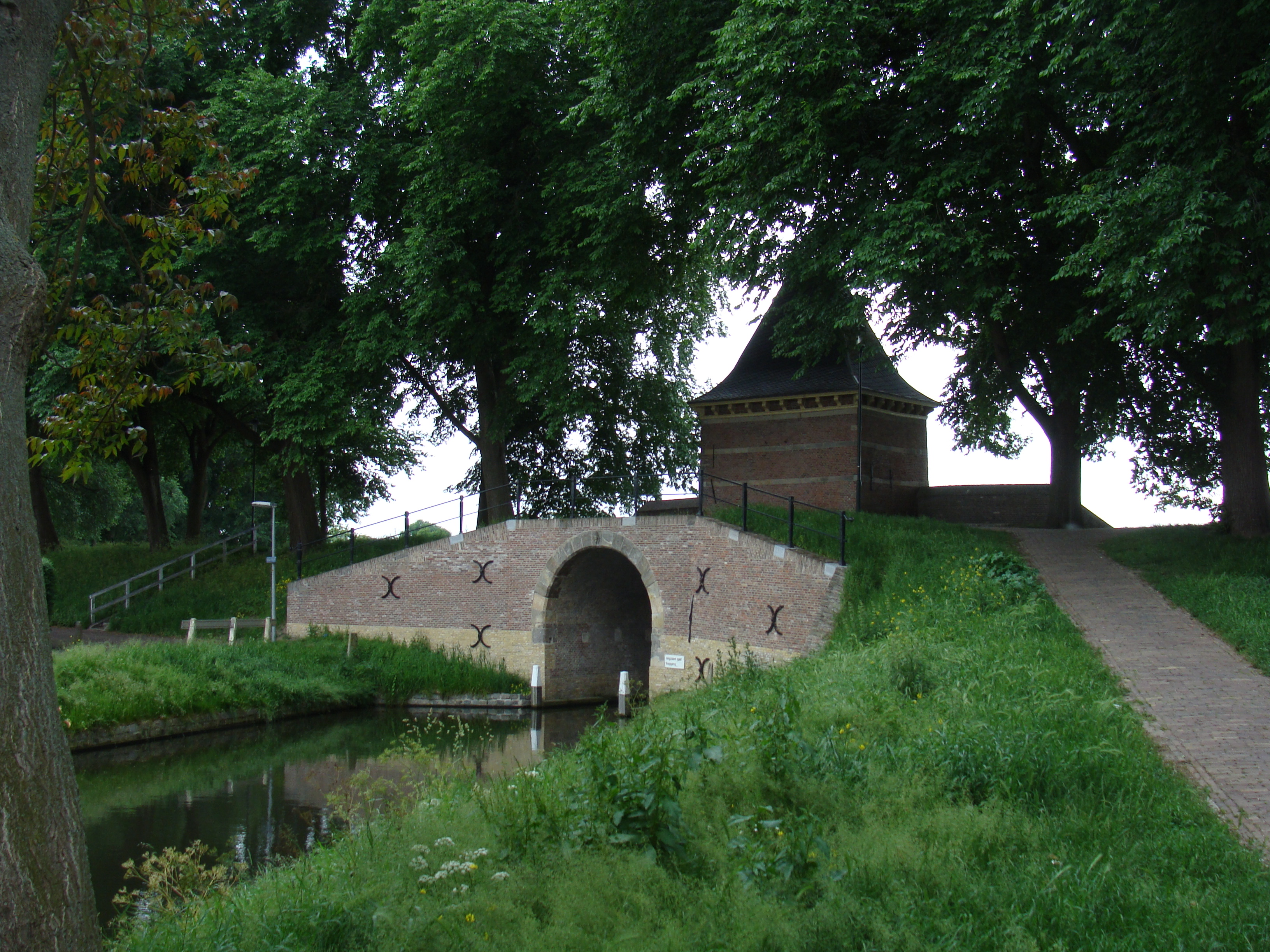 The Boerenboom, a water gate in the Dutch town of Enkhuizen, as seen from within the town